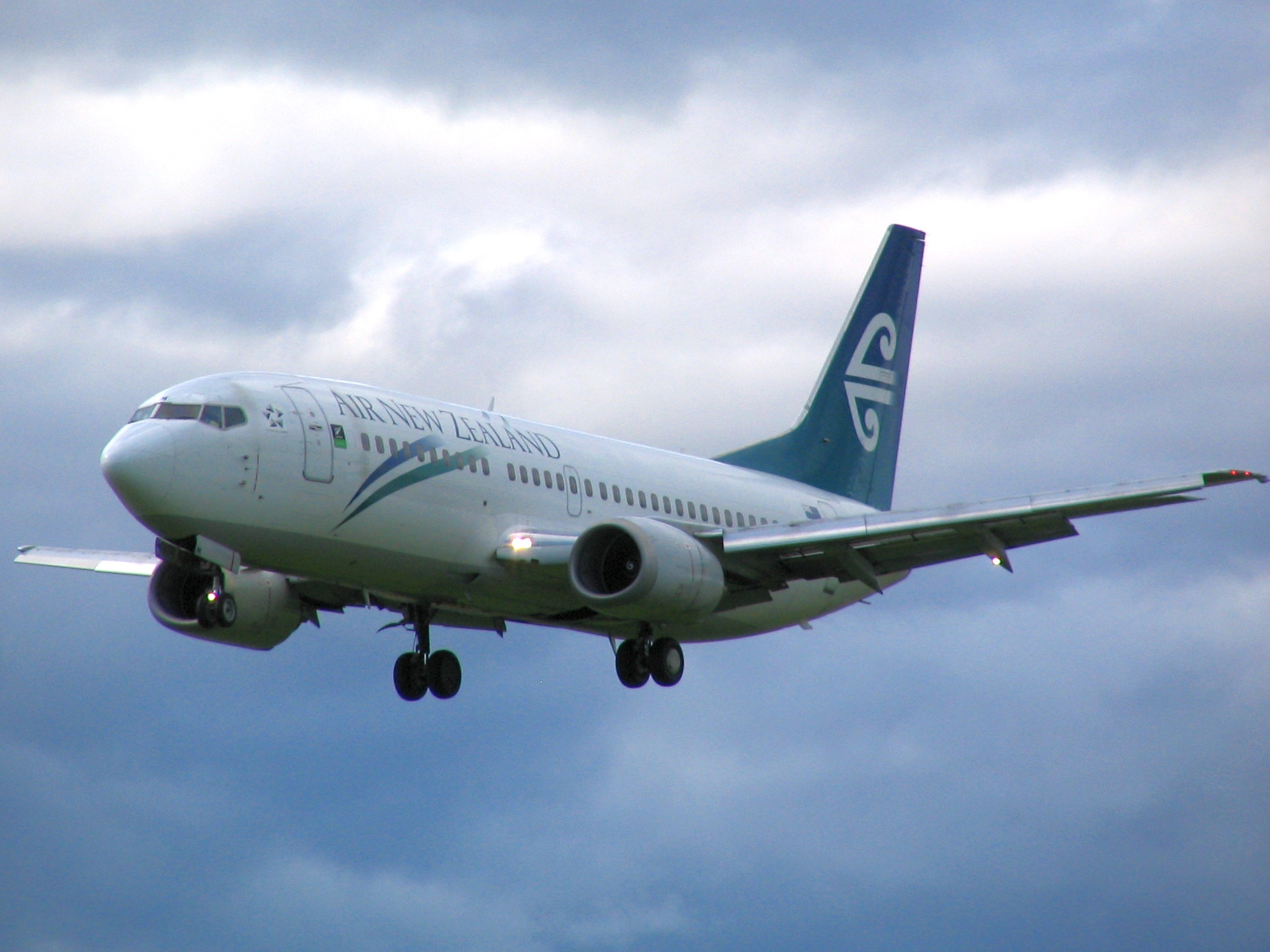 Air New Zealand Boeing 737 ZK-NGM, on final to runway 21, Dunedin International Airport, New Zealand